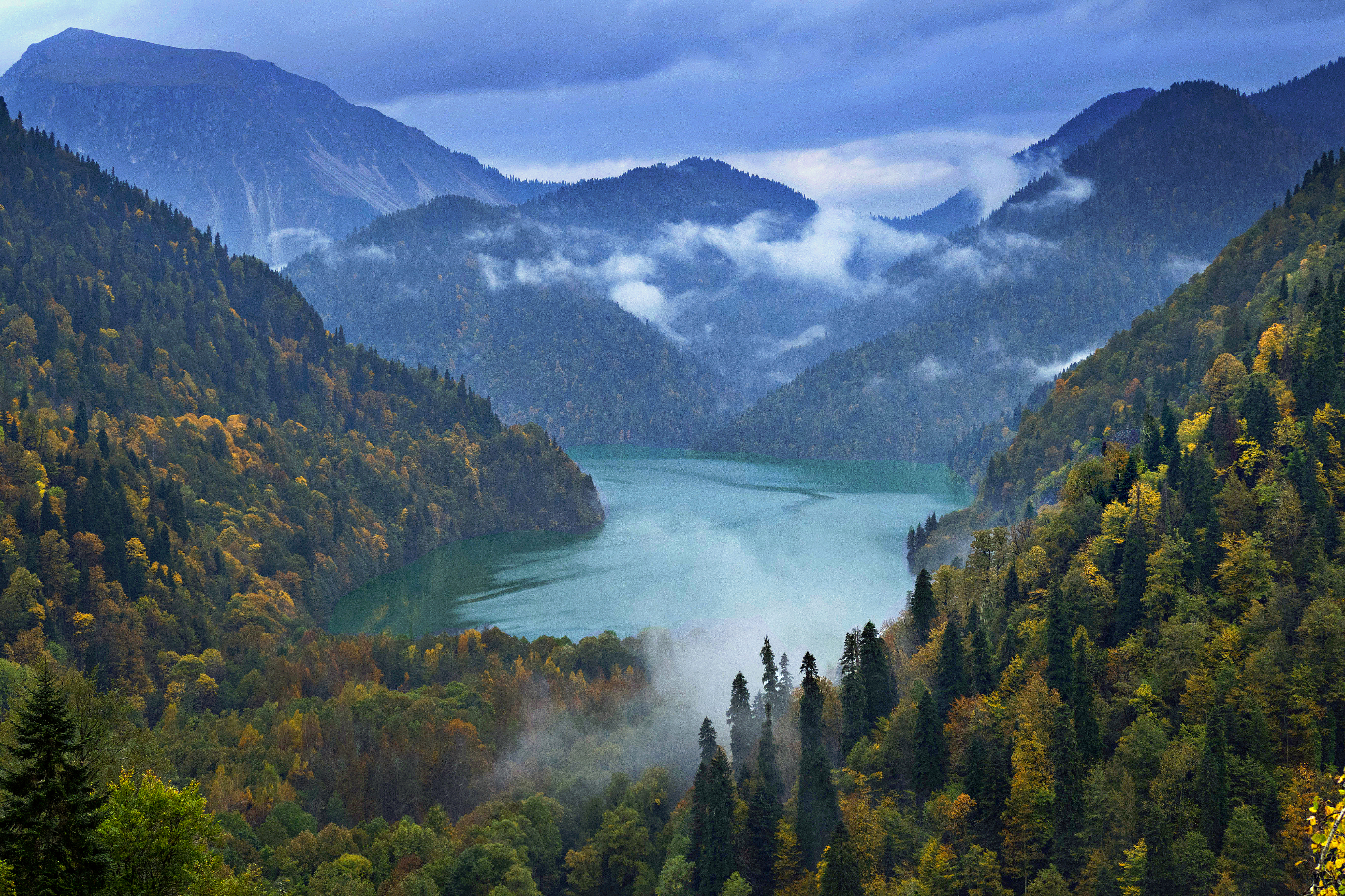 Ritsa Strict Nature Reserve